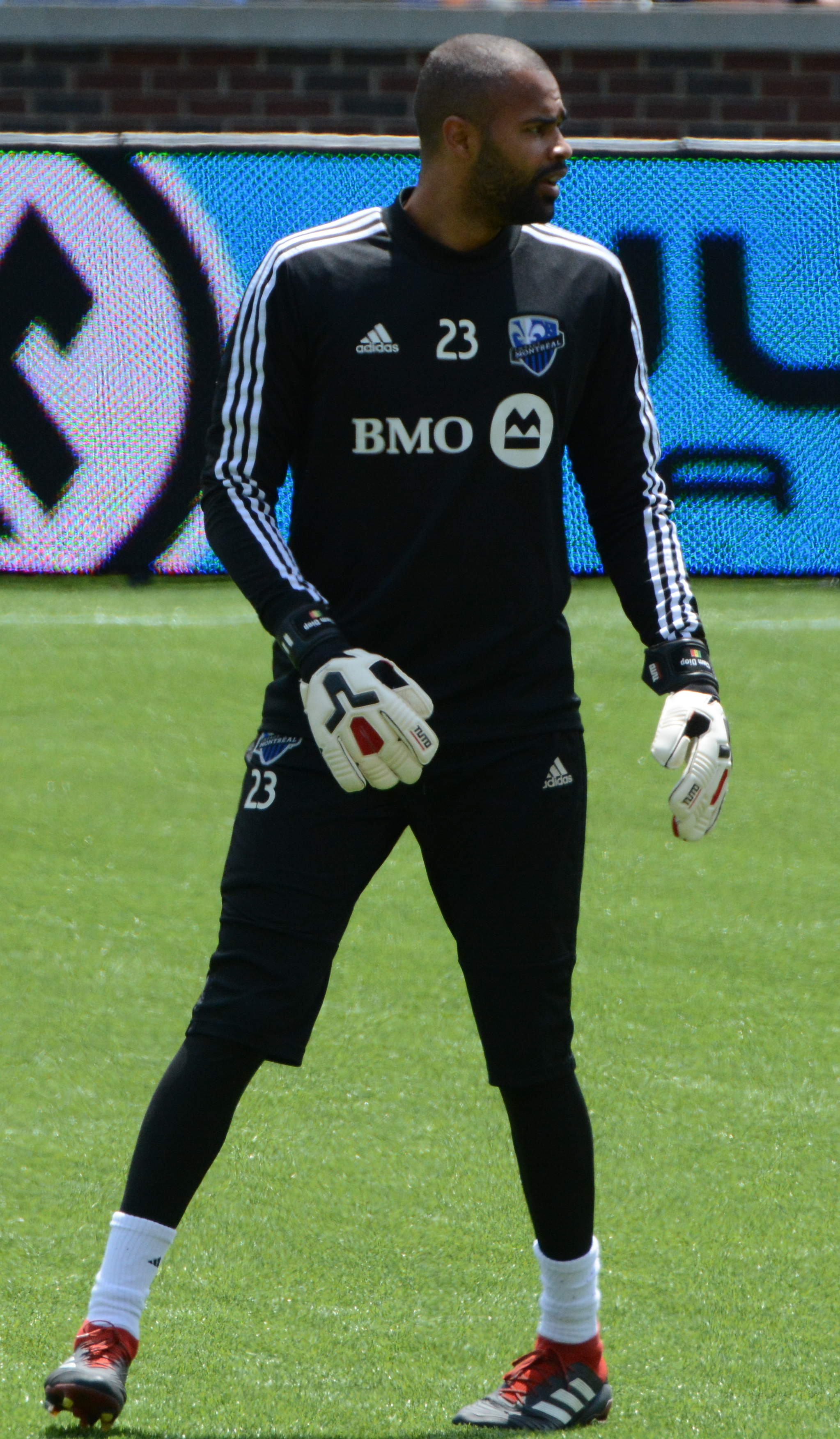 Taken during practice before a Major League Soccer regular season match between FC Cincinnati and Montreal Impact at Nippert Stadium in Cincinnati, USA on May 11, 2019